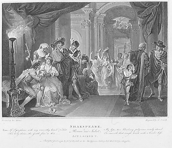 Act I, Scene 5: Romeo's first interview with Juliet